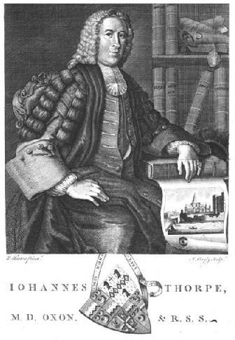 Portrait of John Thorpe (1682–1750), the older, English antiquarian.